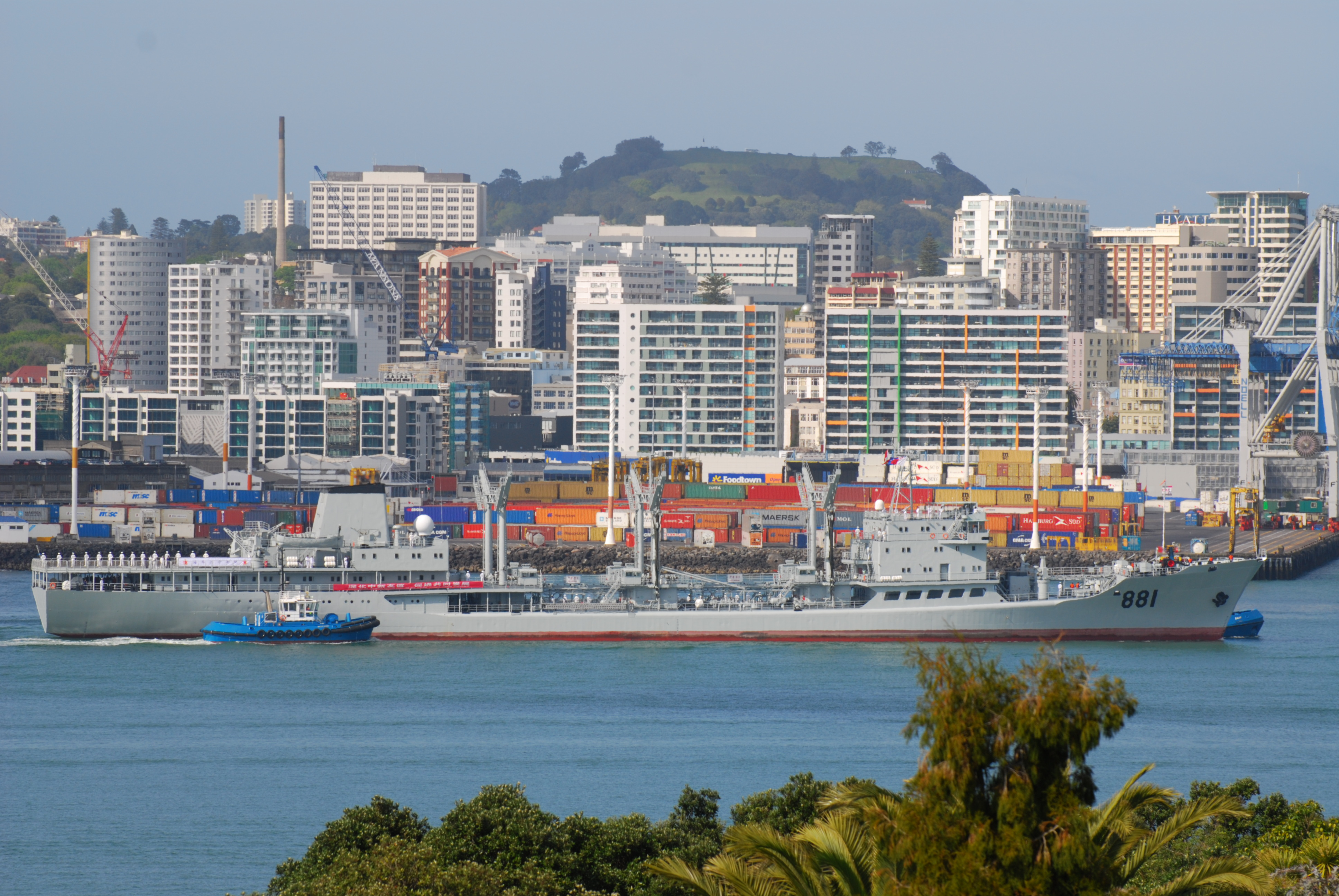 The Peoples Liberation Army Navy FUQING class Tanker, HONGZEHU (AOR881), on a visit to Auckland, New Zealand.[1]